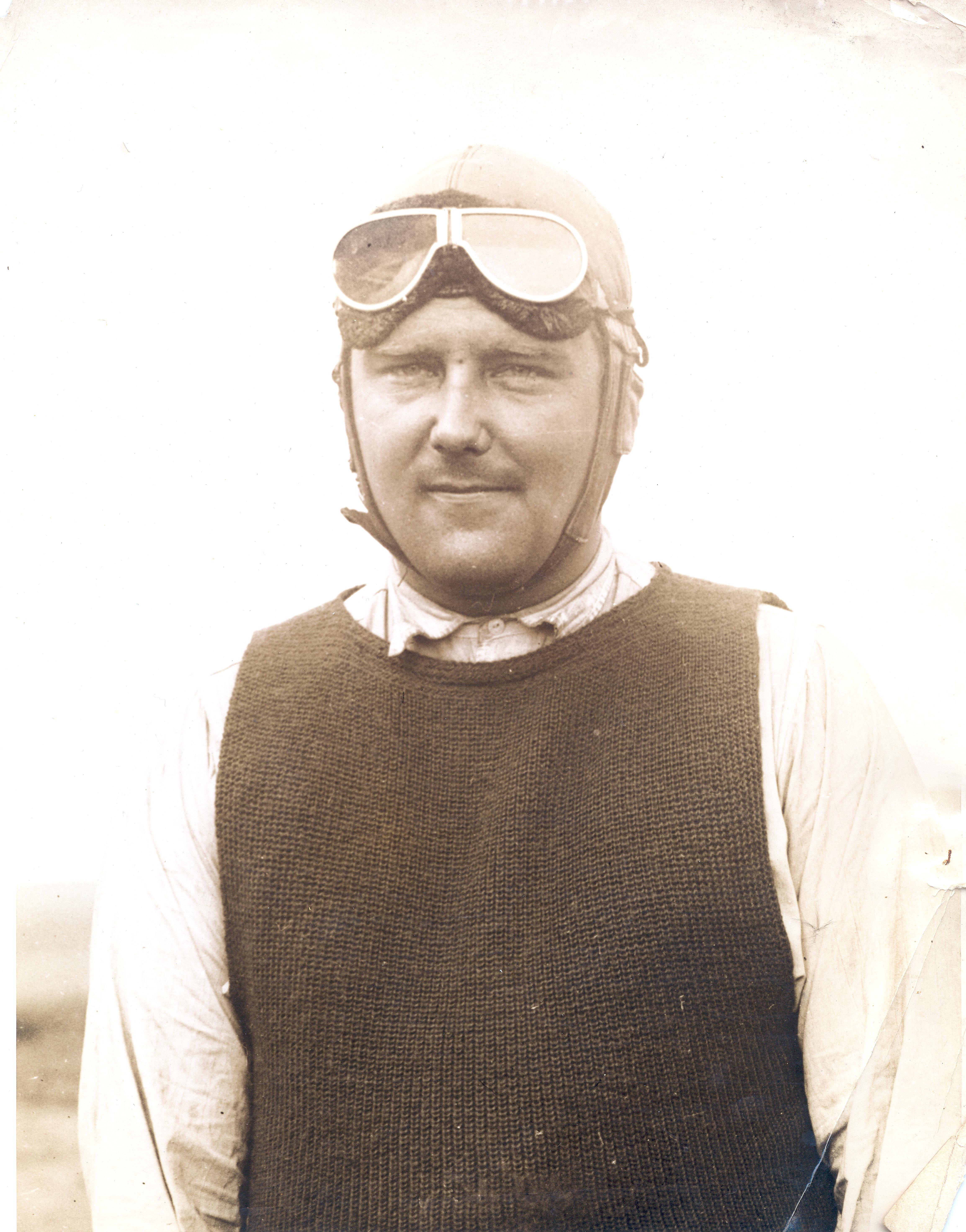 Date: c. 1924 Object number: A.2009-2 Medium: paper; photo-emulsion Description: Lloyd W. Bertaud joined the US Post Office Department's Airmail Service on November 16, 1927. He was assigned to the Cleveland, Ohio, airmail field until he left the service on July 2, 1927. Before his life as an airmail pilot, Bertaud and Eddie Stinson set a world endurance record in a Junkers JL-6 monoplane. National Postal Museum, Curatorial Photographic Collection Photographer: Unknown Place: United States of America See more items in: National Postal Museum Collection Credit line: National Postal Museum, Curatorial Photographic Collection Photographer: Unknown Persistent URL: Repository:National Postal Museum View more collections from the Smithsonian Institution.